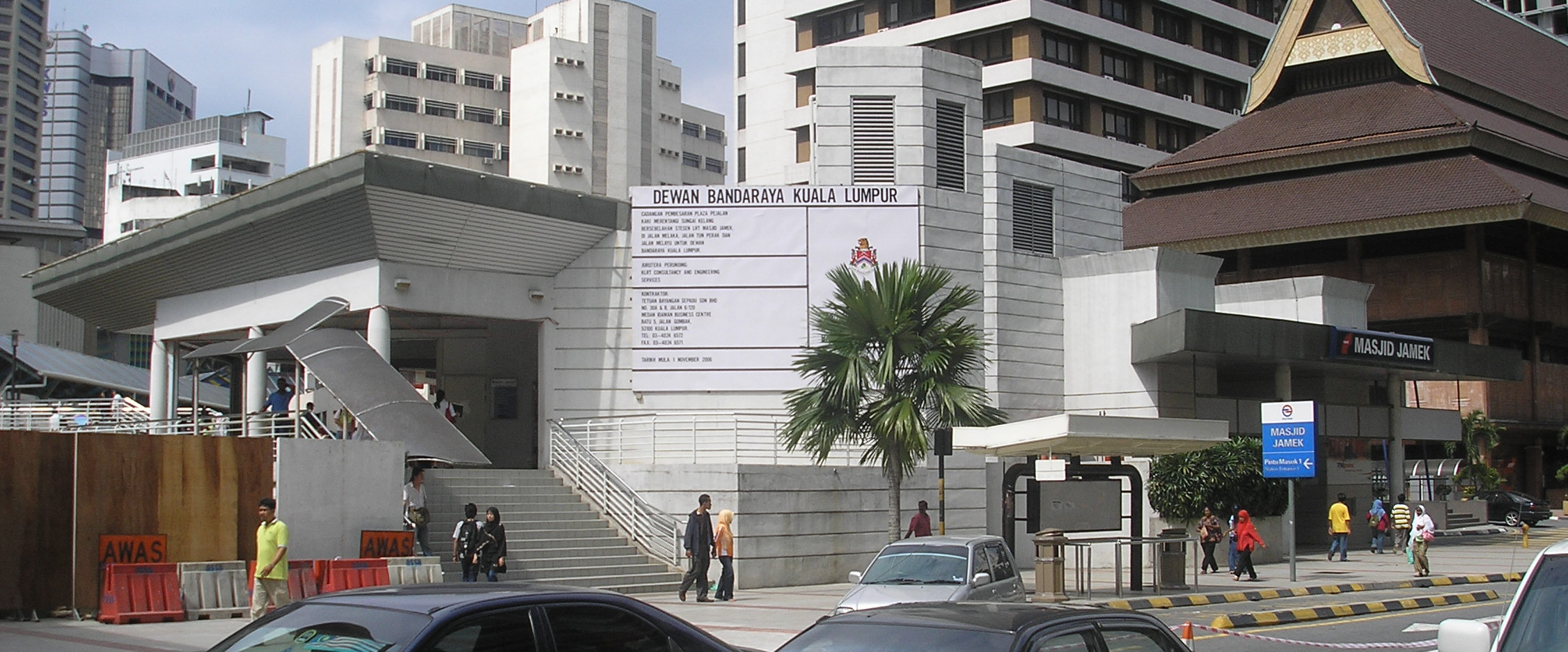 The exterior of the Masjid Jamek subway station (Kelana Jaya Line), Kuala Lumpur, Malaysia.